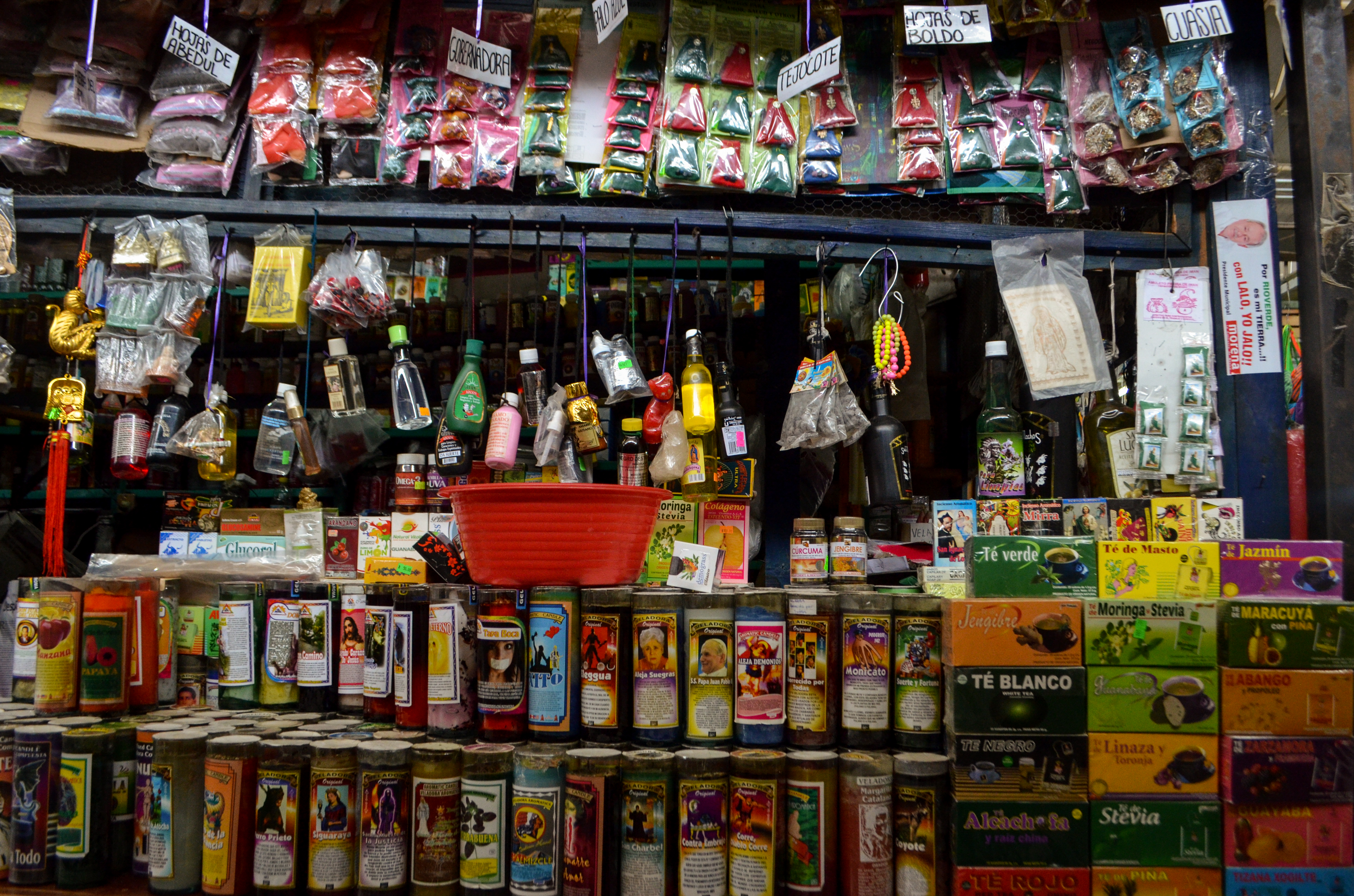 Parte de la serie fotográfica "convergencias", es el encuantro de la cultura, los lenguajes, colores, olores y sabores, que nos proporcionan los mercados tradicionales y las plazas de mercado de México, espacios que nos generan experiencias a traves de la diversidad y permite el cambio de ideas de sociedades disimiles.